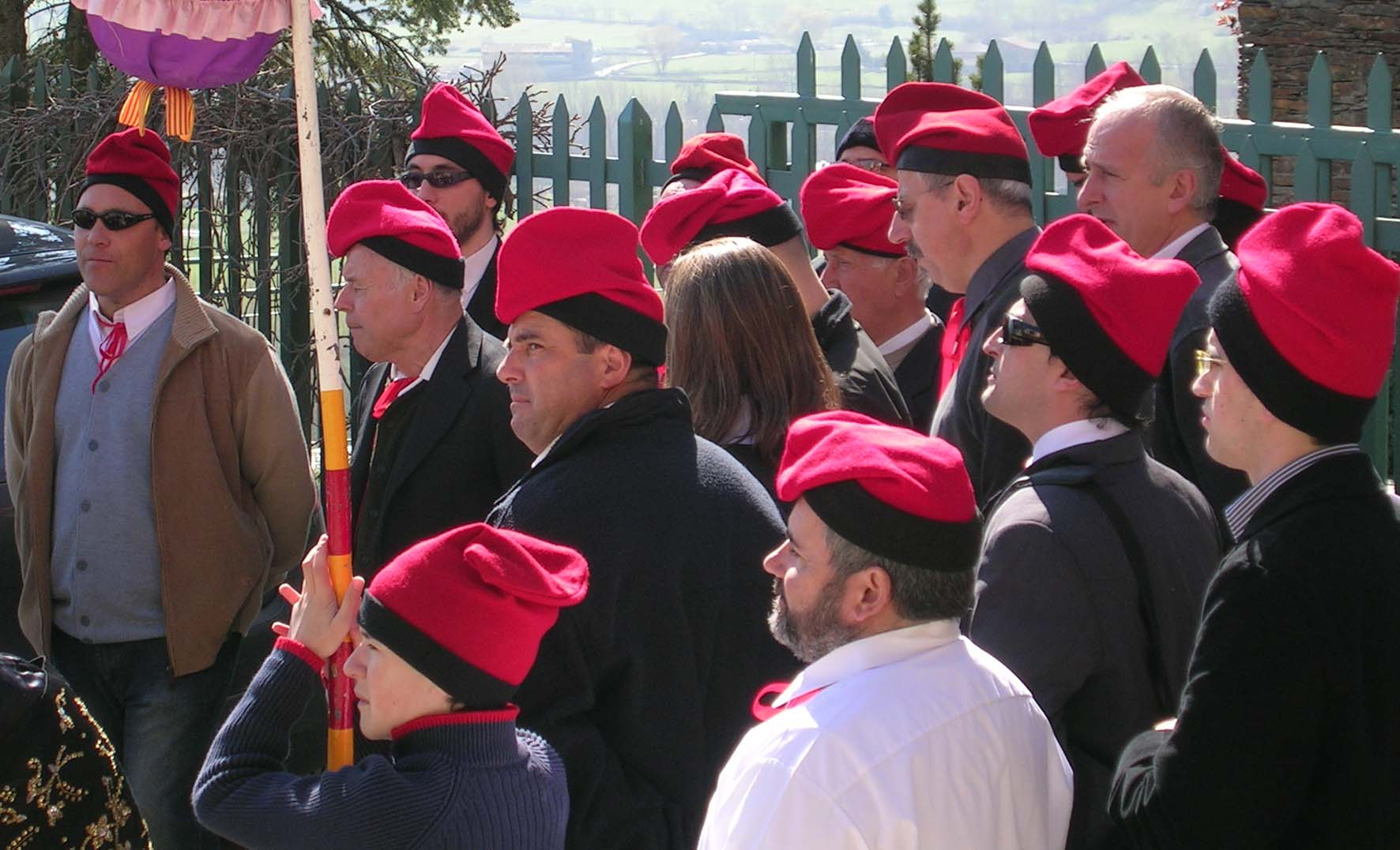 Men wearing barretina (Caramelles)